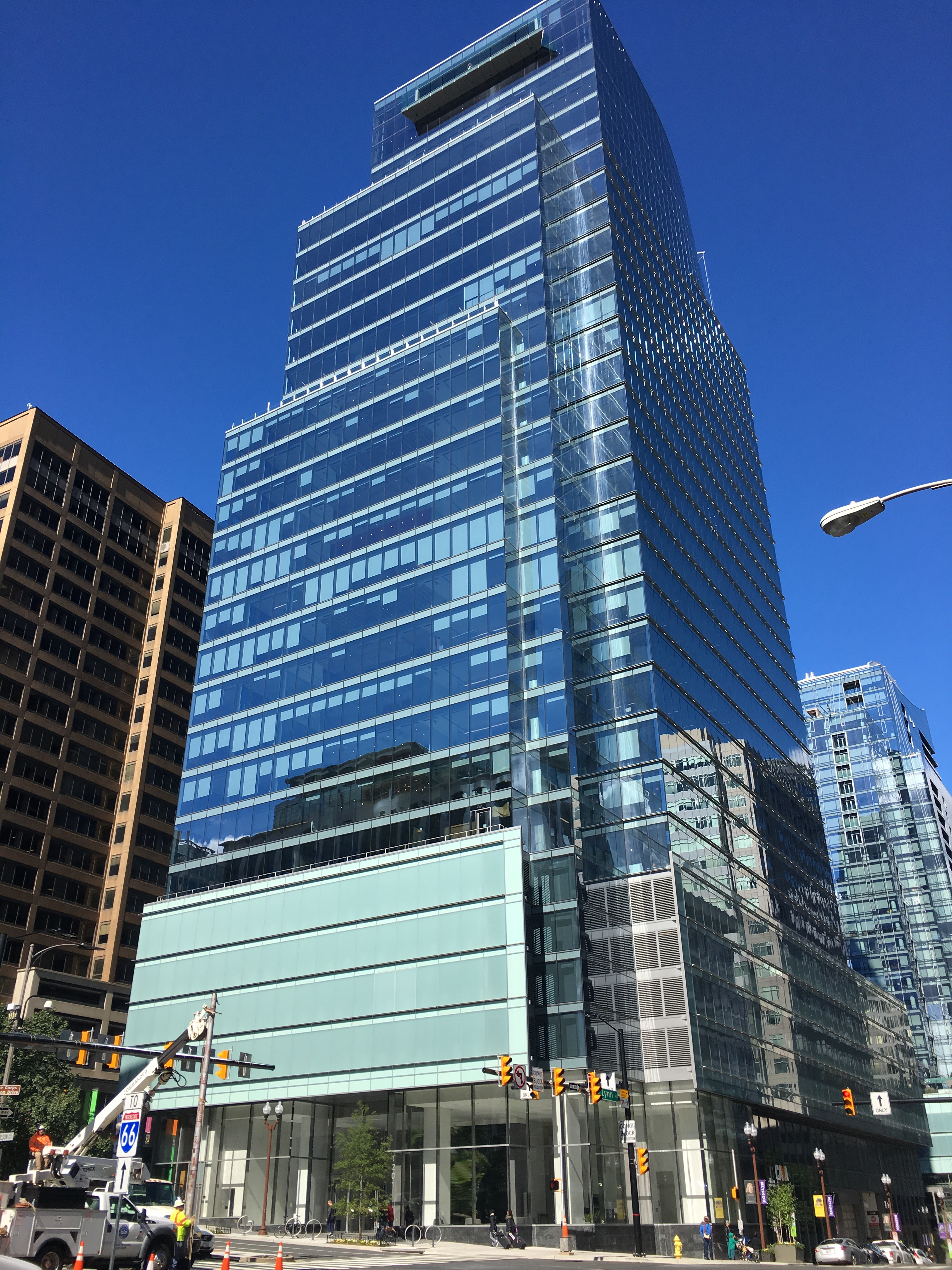 CEB Building 10-18